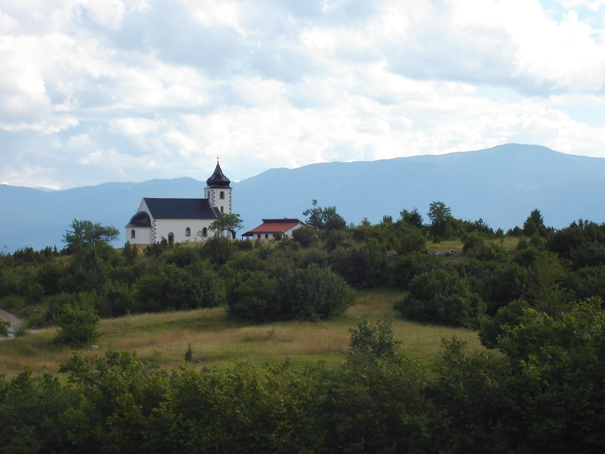 Church in the municipality Pljevlja, Montenegro